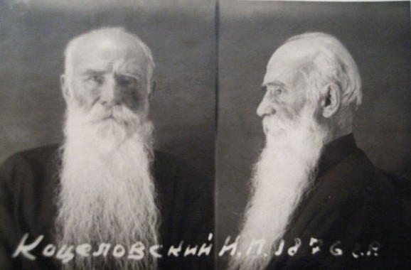 Josaphat Kotsylovsky Ukr. Йосафа́т Коцило́вський (1876-1947) - Ukrainian Greek-Catholic Church bishop who suffered religious persecution and was martyred by the Soviet Government.